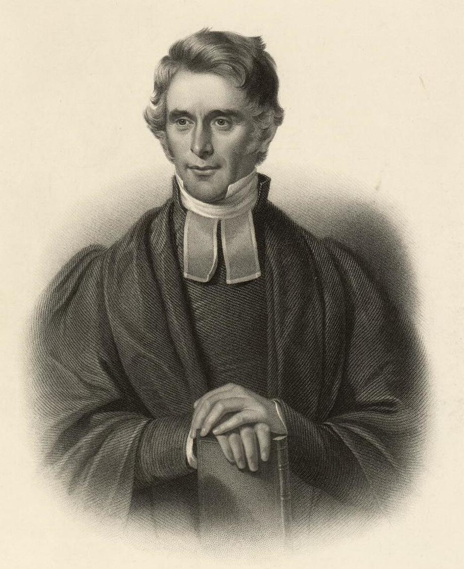 A portrait from the Welsh Portrait Collection at the National Library of Wales. Depicted person: Edward Bickersteth – English priest, died 1850